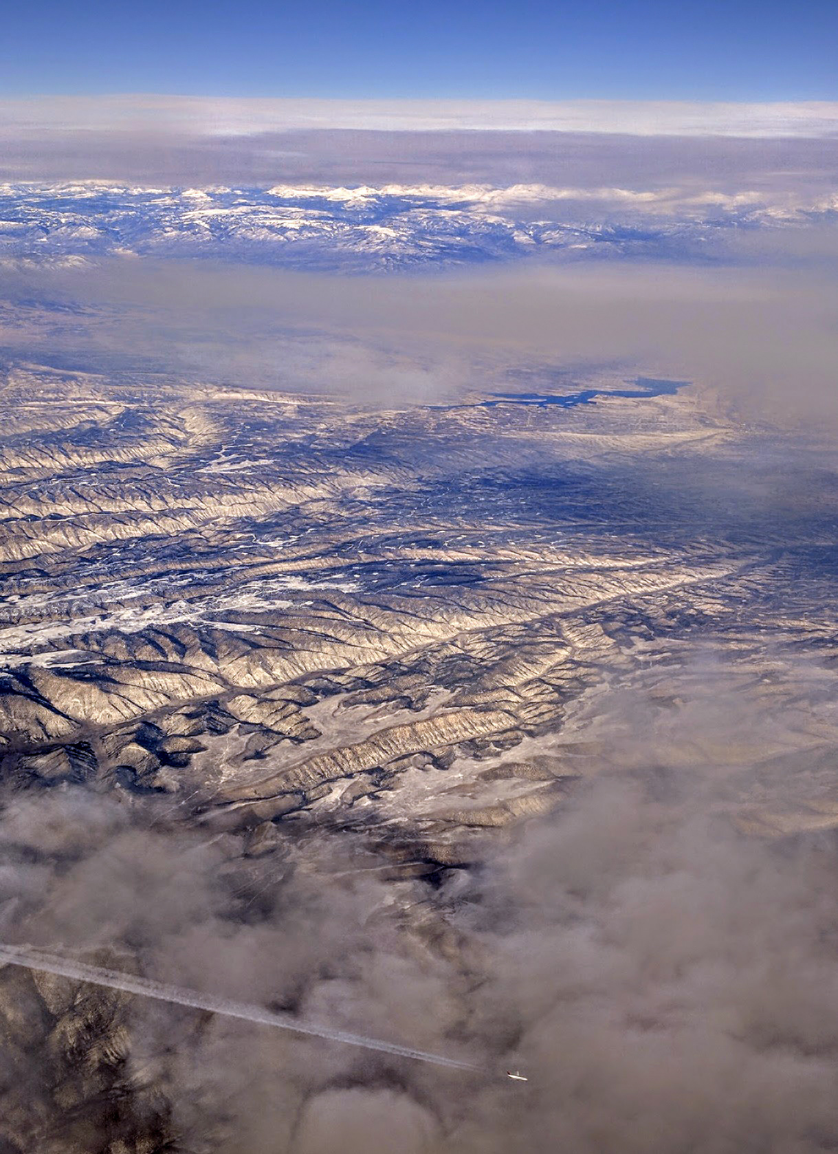 Aerial view of the region south of the Starvation Reservoir and Starvation State Park in Utah. Oil and oil shale drilling platforms dot the landscape. Another jetliner is visible crossing path below this one at 39,000 feet.